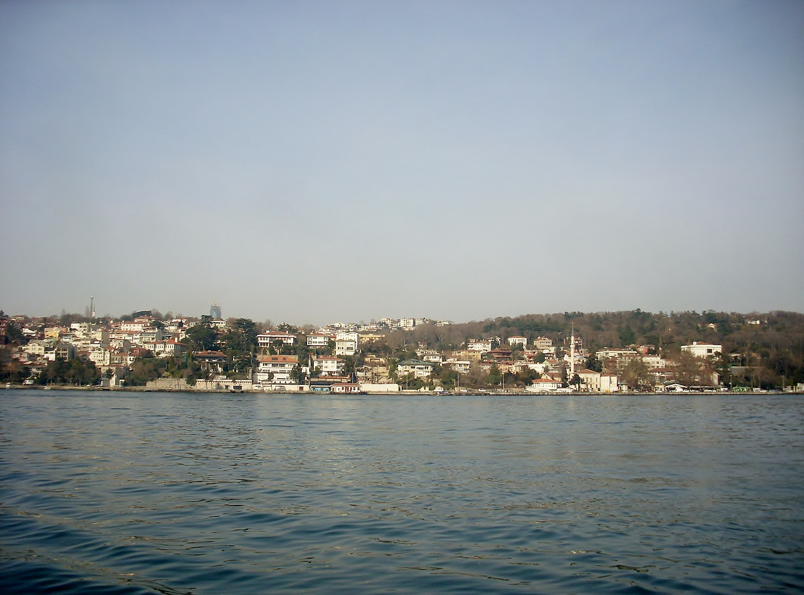 İstanbul - Emirgan, Sarıyer 1 - Feb 2013